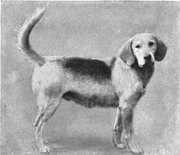 Harrier. (From Photo by Bowden Bros.)